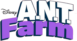 Logo of american television sitcom A.N.T. Farm